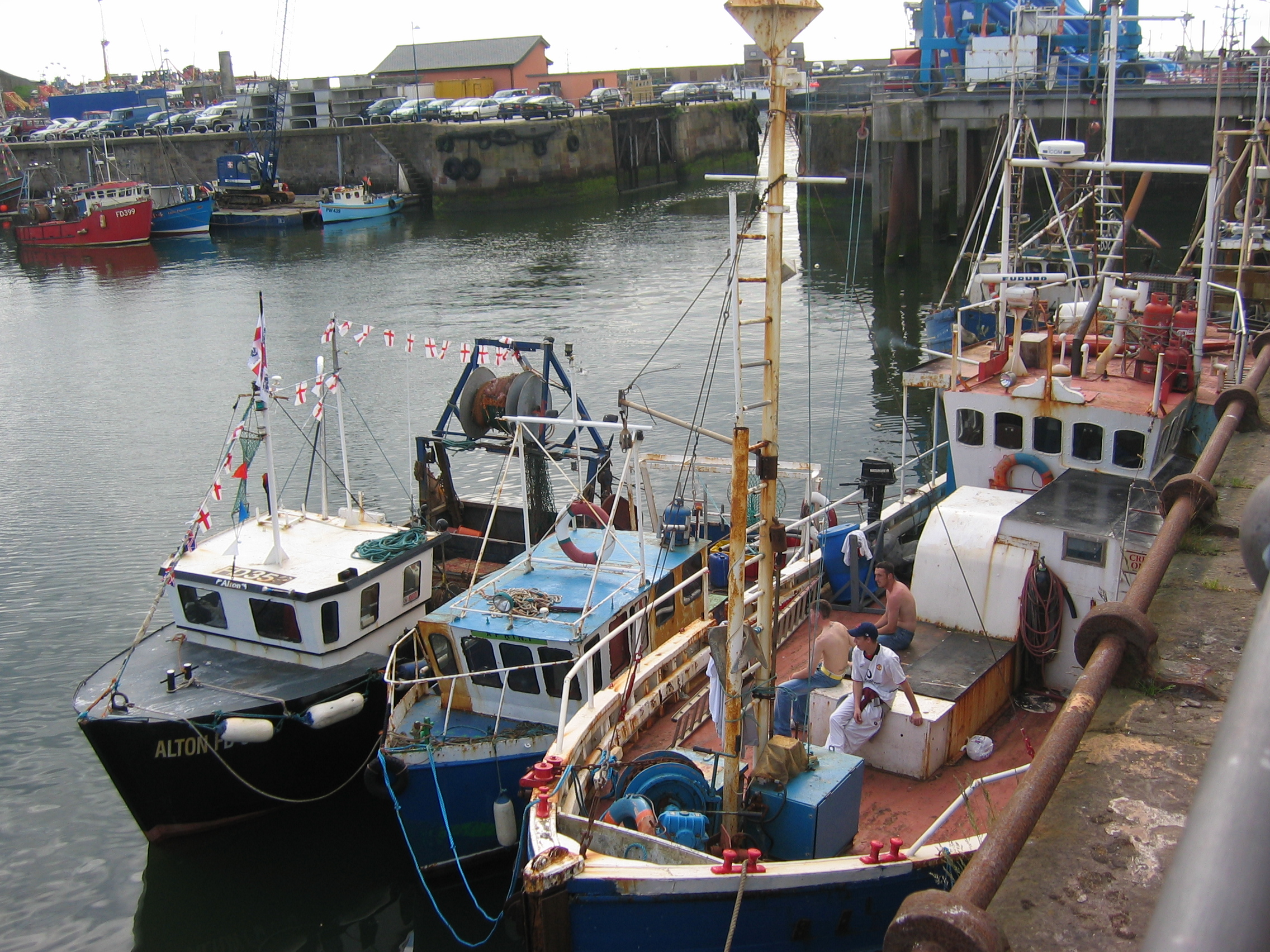 Commercial Port, Whitehaven, Solway Firth, Cumbria, England